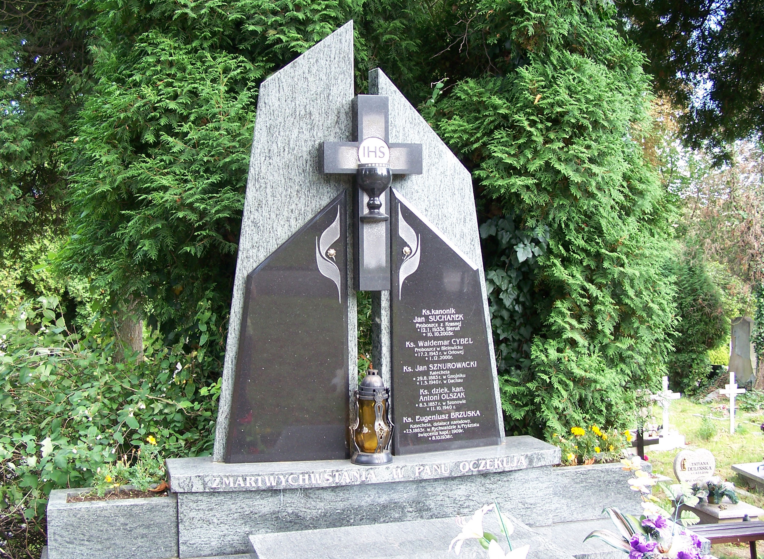 Grave of Catholic priests Jan Suchanek, Waldemar Cybel, Jan Sznurowacki, Antoni Olszak and Eugeniusz Brzuska at the Communal Cemetery in Cieszyn, Poland